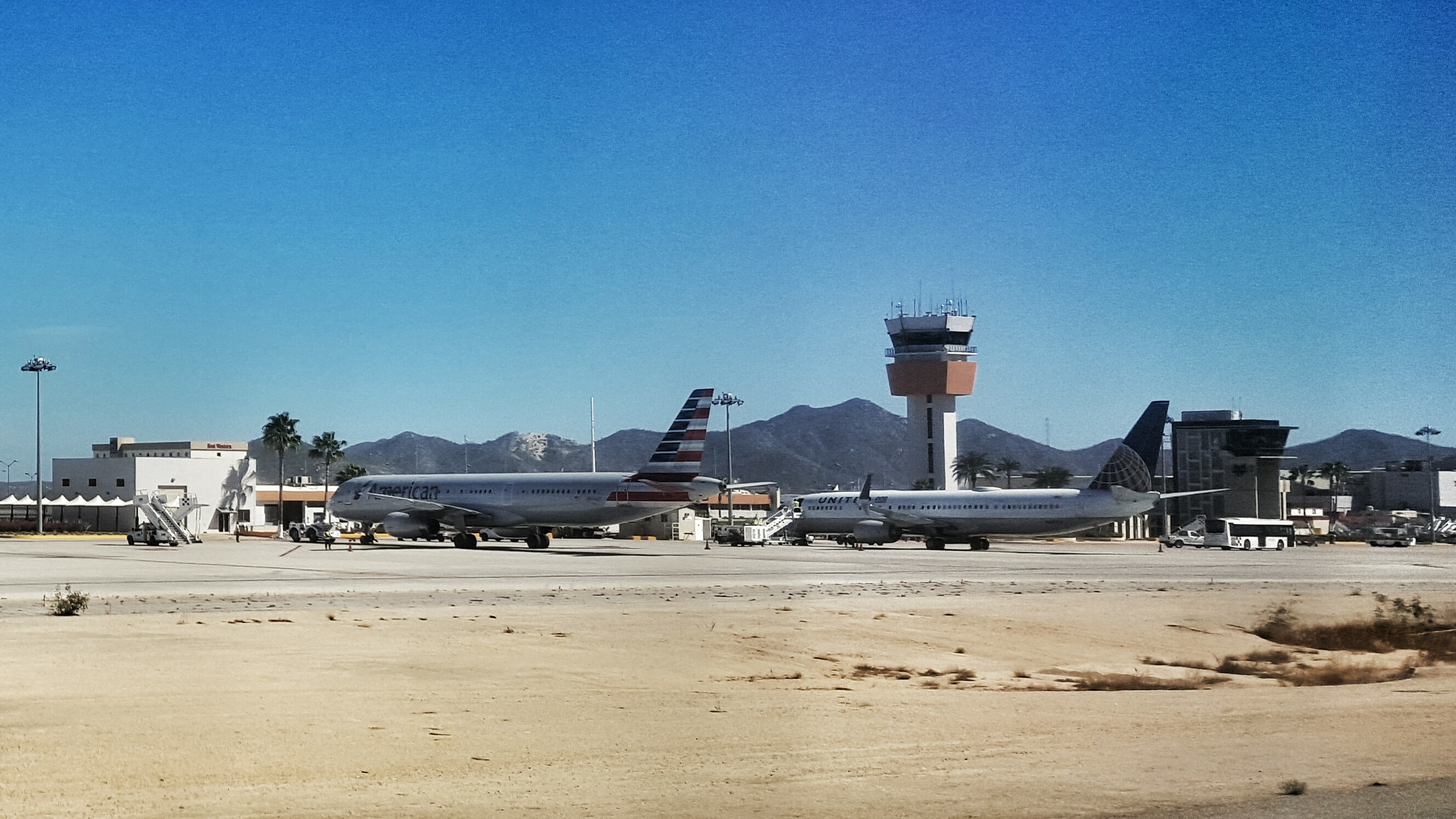 Los Cabos Airport Tower, view from tarmac